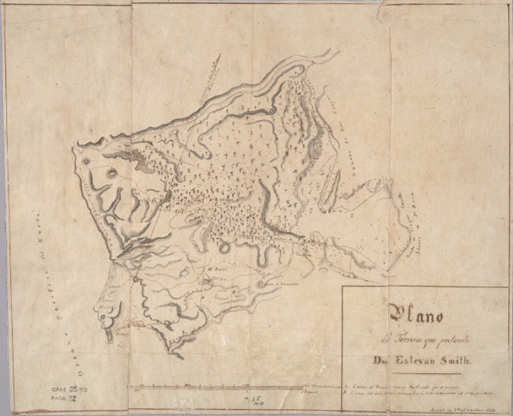 4362 B633Oriented with north toward the upper right.Pen-and-ink and watercolor on tracing paper.From: U.S. District Court. California, Northern District. Land case 35 ND, page 82; land case map D-74 (Bancroft Library). Stephen Smith, clmt.Shows drainage, boundaries, roads, etc.Relief shown pictorially.